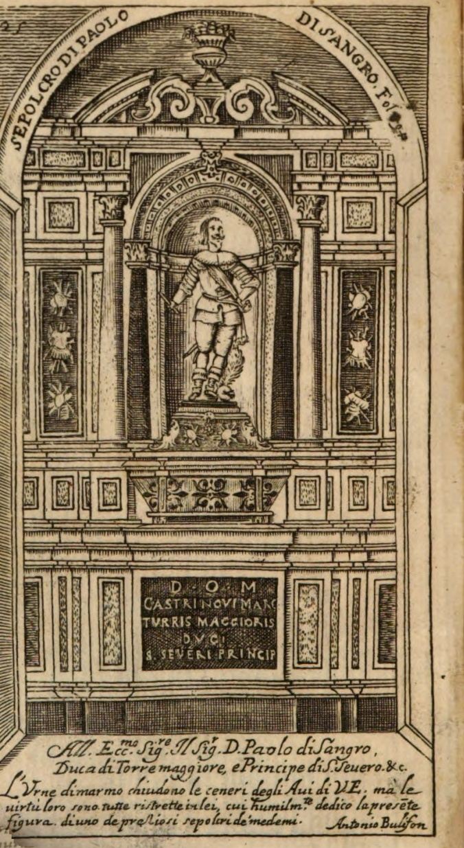 XVII century reproduction of the statue of Paolo di Sangro IV prince of Sansevero. The statue is situated inside the Cappella Sansevero in Naples